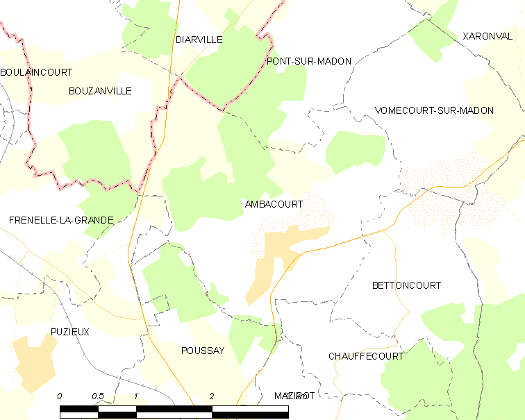 Map of French municipality Ambacourt